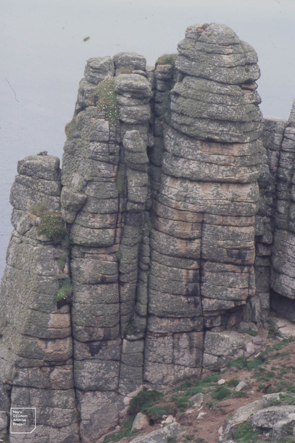 Jointed granite on Lundy in England.